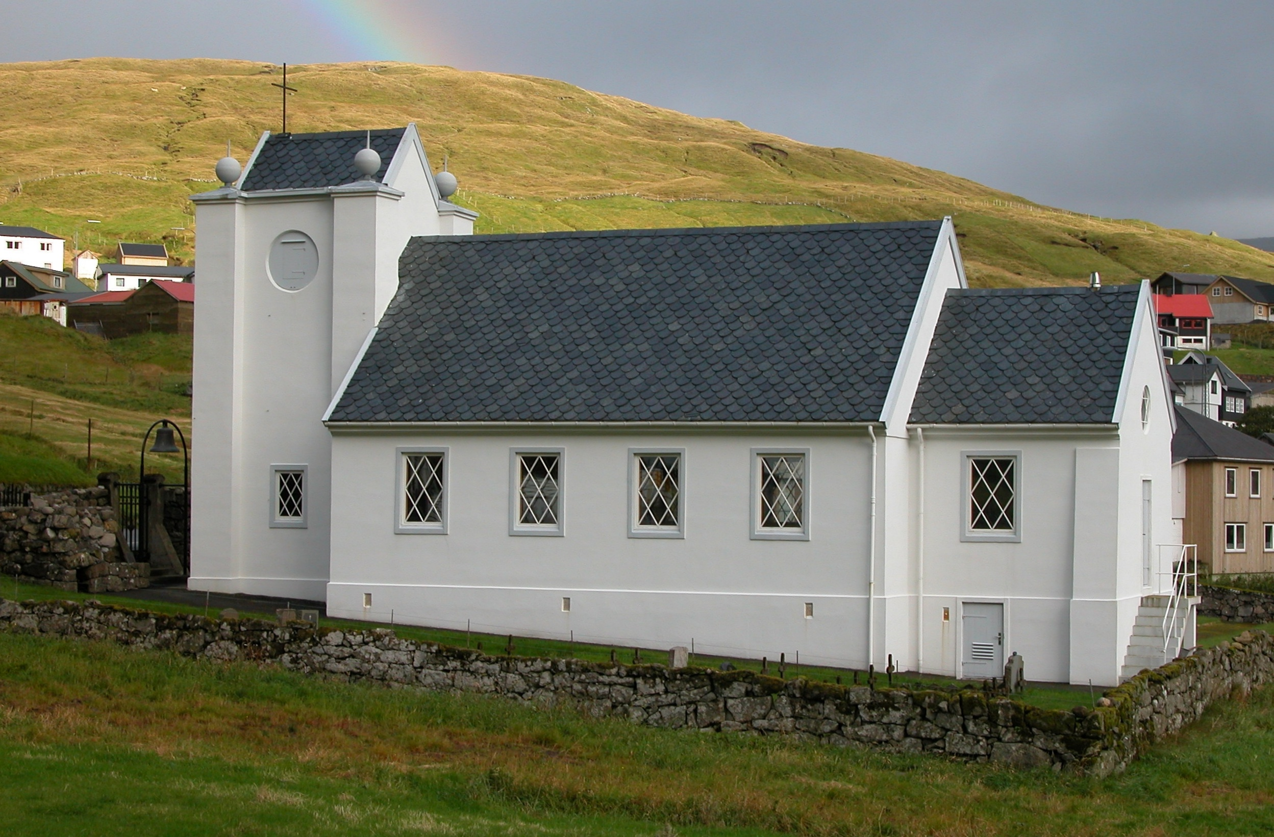 Church of Hósvík on Streymoy, Faroe Islands